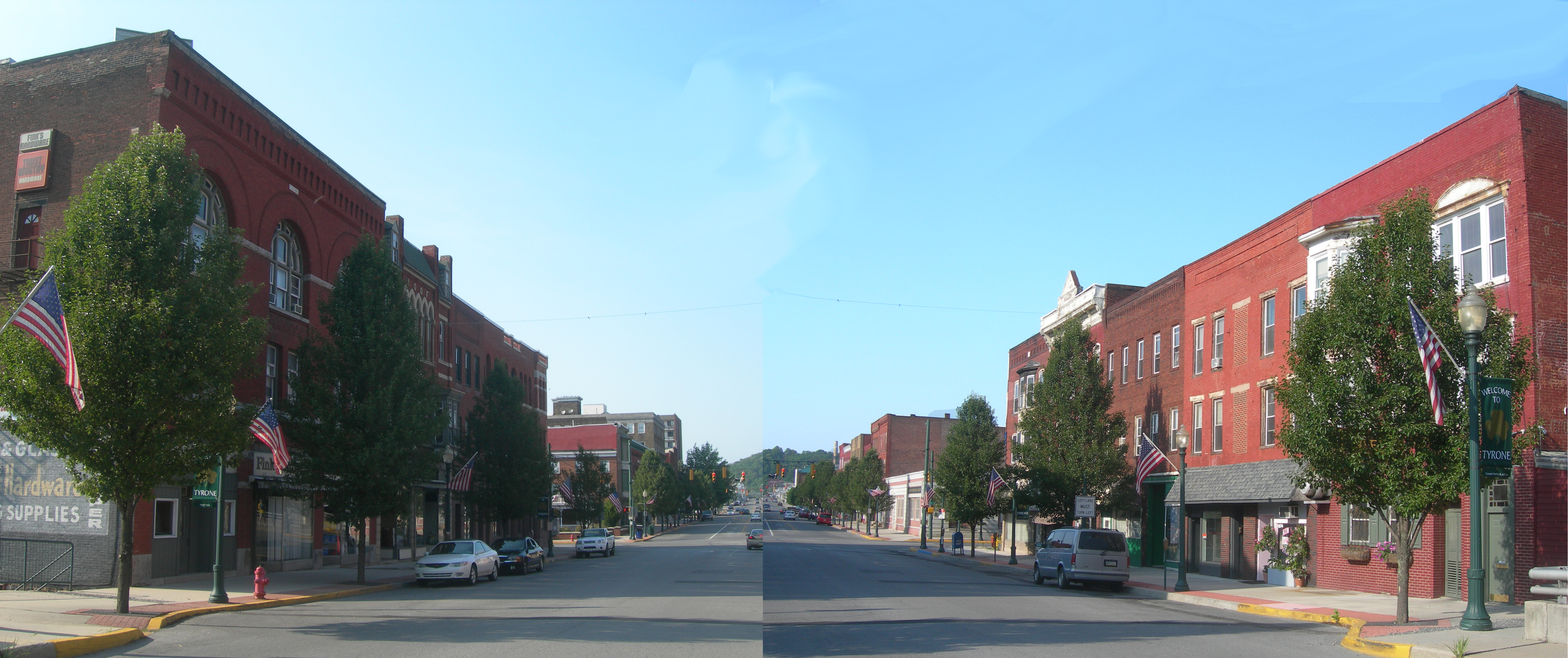 An image created from two images of the downtown historic district of Tyrone, Pennsylvania taken in 2012 and based off of a set of photos taken in 1936. On the national register as #92001823